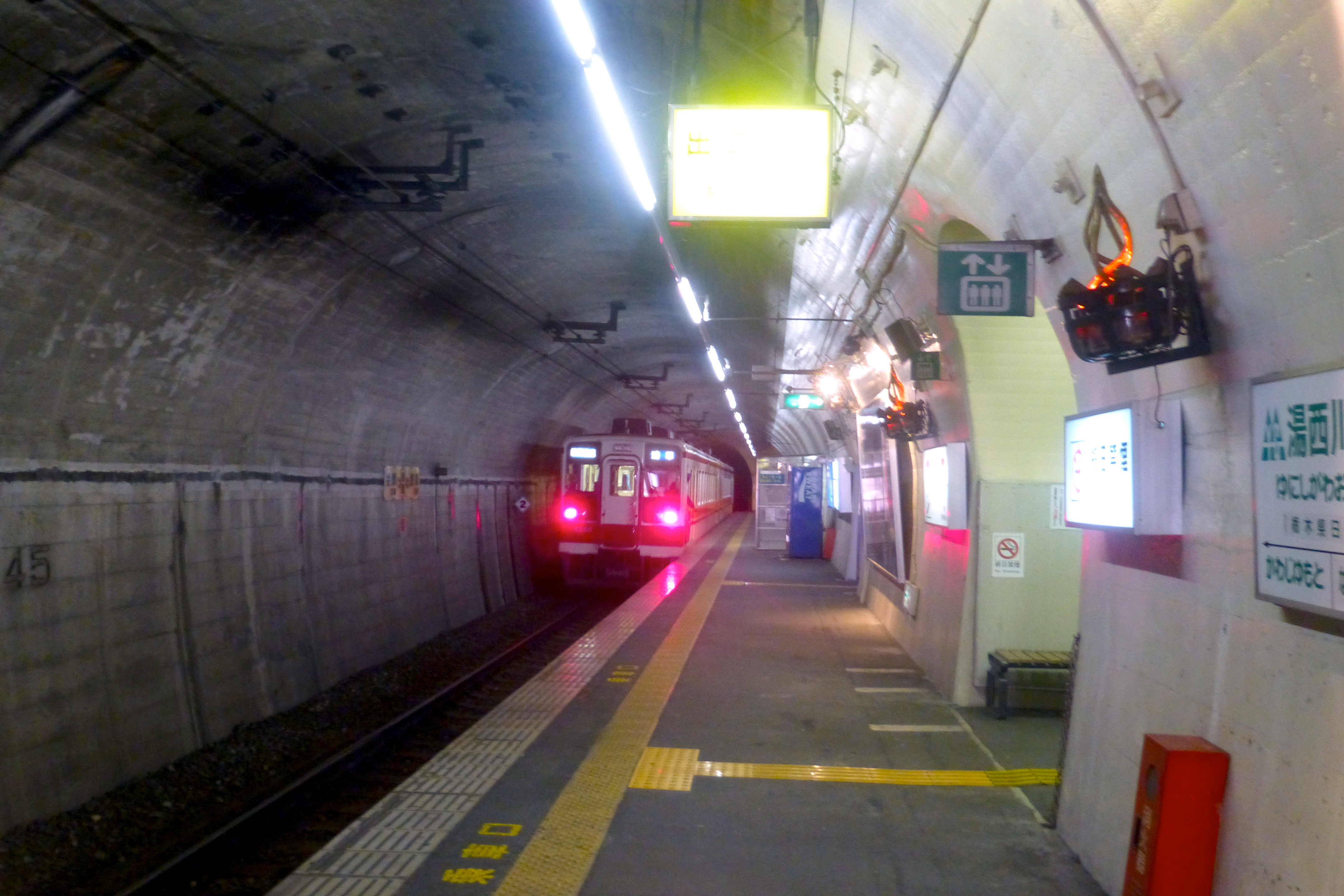 Yunishigawa-Onsen Station (湯西川温泉駅 Yunishigawa-Onsen-eki) is a train station in Nikkō, Tochigi Prefecture, Japan. This is on the platform with a train. The platform is in a tunnel.